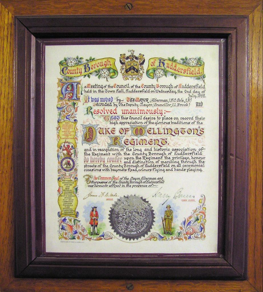 Photo of the Freedom Scroll presented to the Duke of Wellingtons Regiment (West Riding) in July 1952. This Scroll is on Public display at the Regiments Area HQ in Halifax, West Yorkshire.